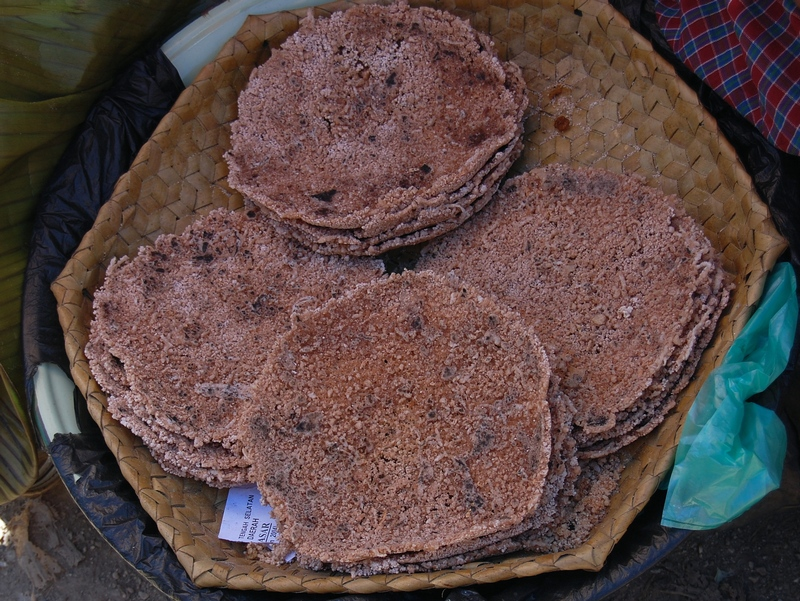 Cake made from starch of Corypha utan, locally known as putak; Ayotupas, West Timor, Indonesia